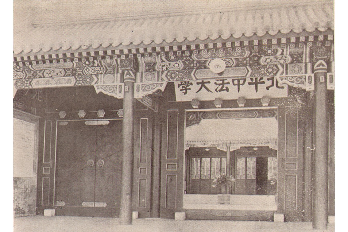 Gate, l'Université Franco-Chinoise